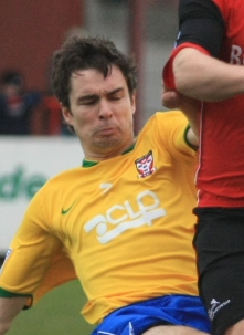 David McGurk playing for York City against Droylsden at the Butcher's Arms Ground, Droylsden on 1 January 2008